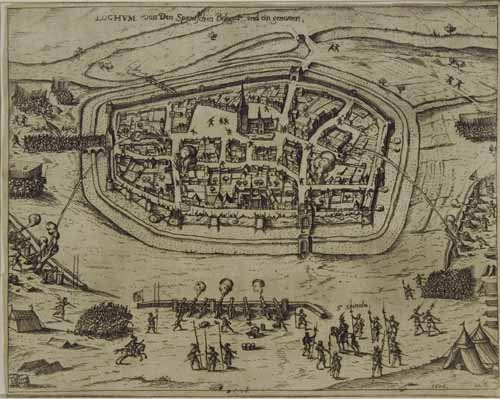 Siege en capture of Lochem (Ntherlands) by Spanish troops under Spinola -1606- birdseyes view